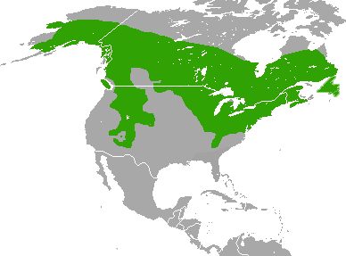 Tamiasciurus hudsonicus range map, with colonial borders